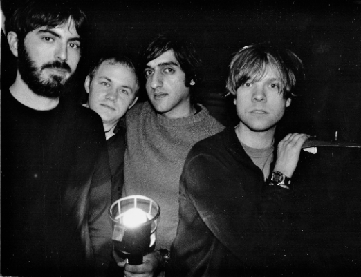 Explosions in the Sky, 2004